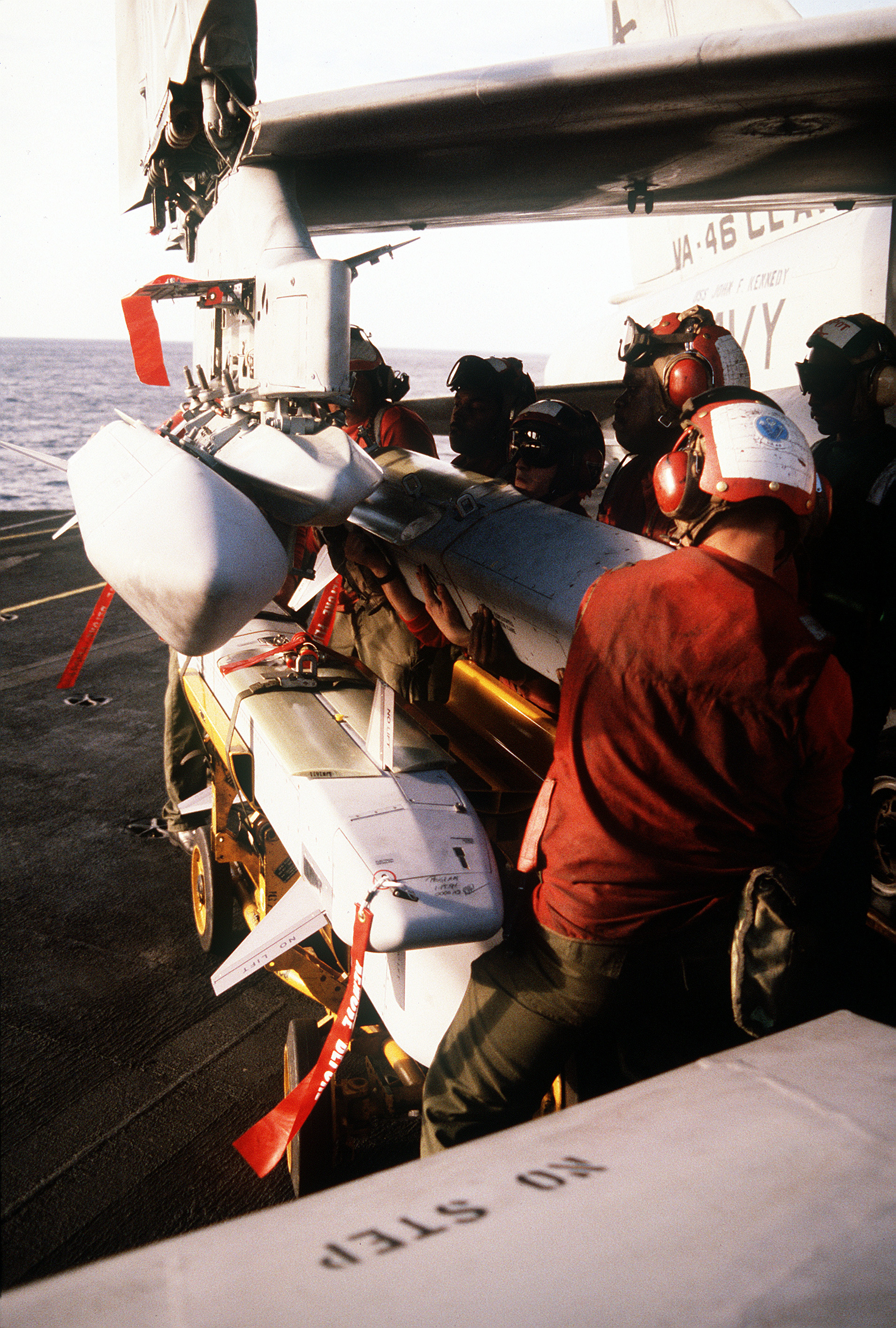 Aviation ordnanceman fit ADM-141 tactical air-launched decoys to an Attack Squadron 46 (VA-46) A-7E Corsair II aircraft on the flight deck of the aircraft carrier USS JOHN F. KENNEDY (CV-67). Aircraft aboard the KENNEDY are being fitted for strikes on Iraqi targets at the onset of Operation Desert Storm.